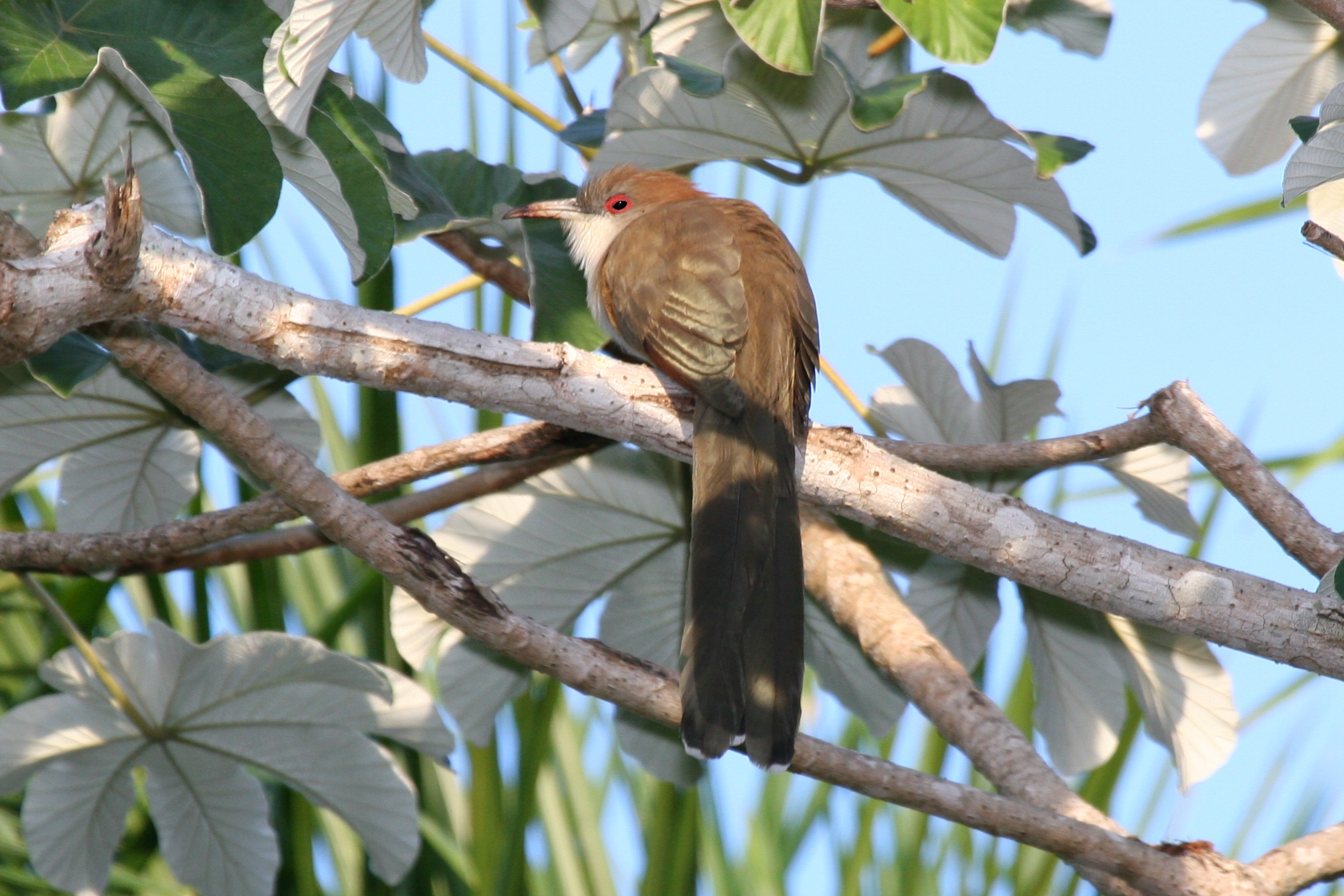 Great Lizard-cuckoo Saurothera merlini (syn. Coccyzus merlini)